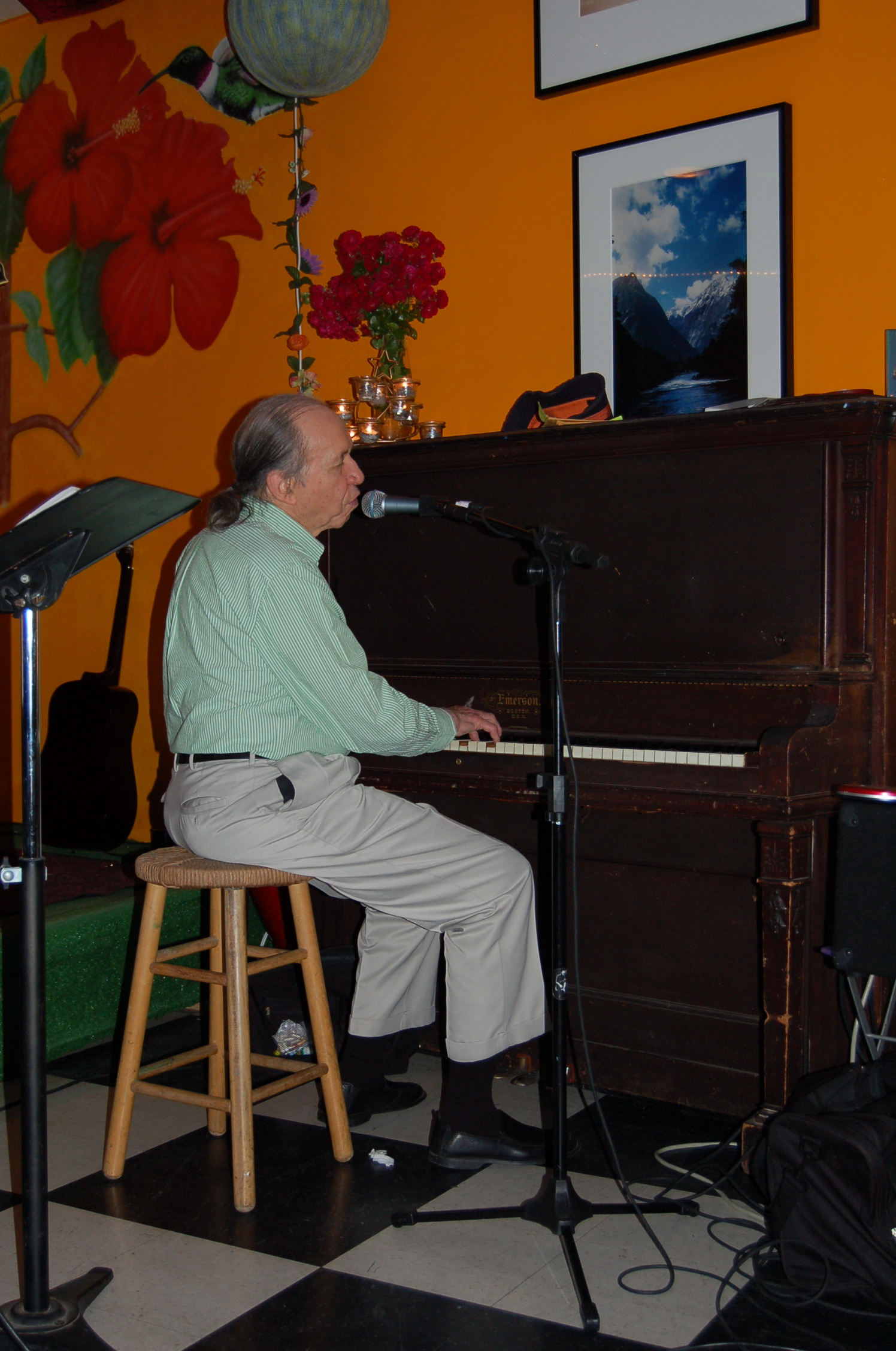 Bob Dorough - Writer and singer of the School House Rock Songs!